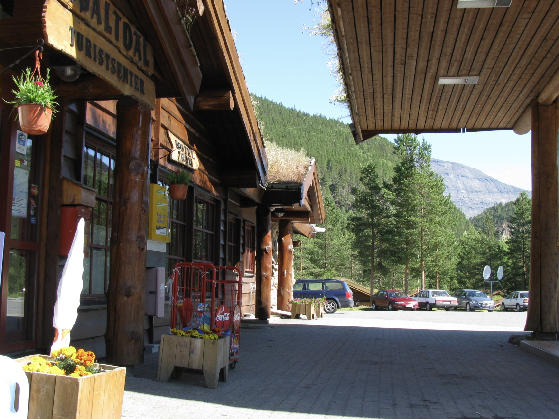 Saltdal Turistsenter, at the E6 road, Saltdal, Nordland, Norway. No: Saltdal Turistsenter i Saltdal.